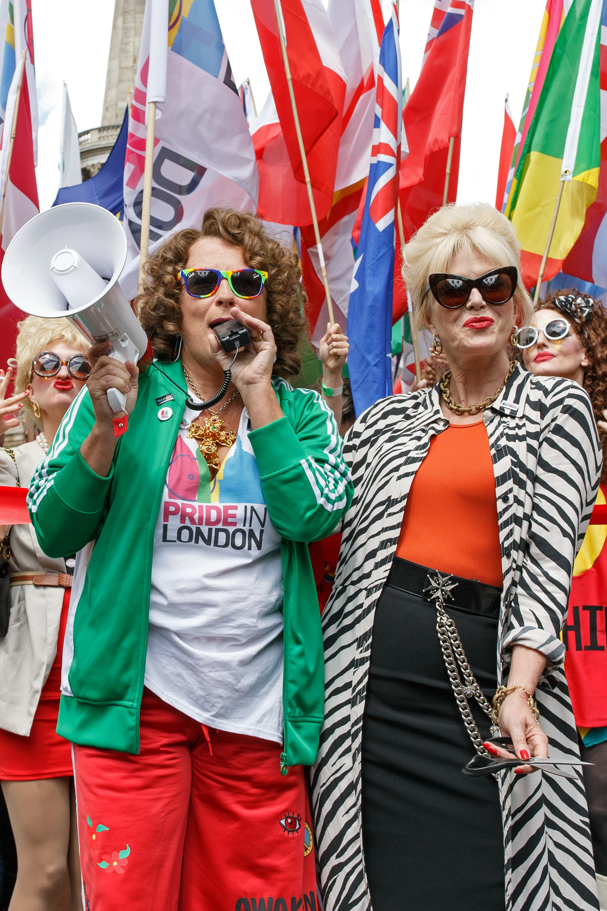 Jennifer Saunders and Joanna Lumley in character as Edina Monsoon and Patsy Stone from Absolutely Fabulous at Pride in London 2016. They are backed by drag queens and flag bearers. This is a crop of the wider image.